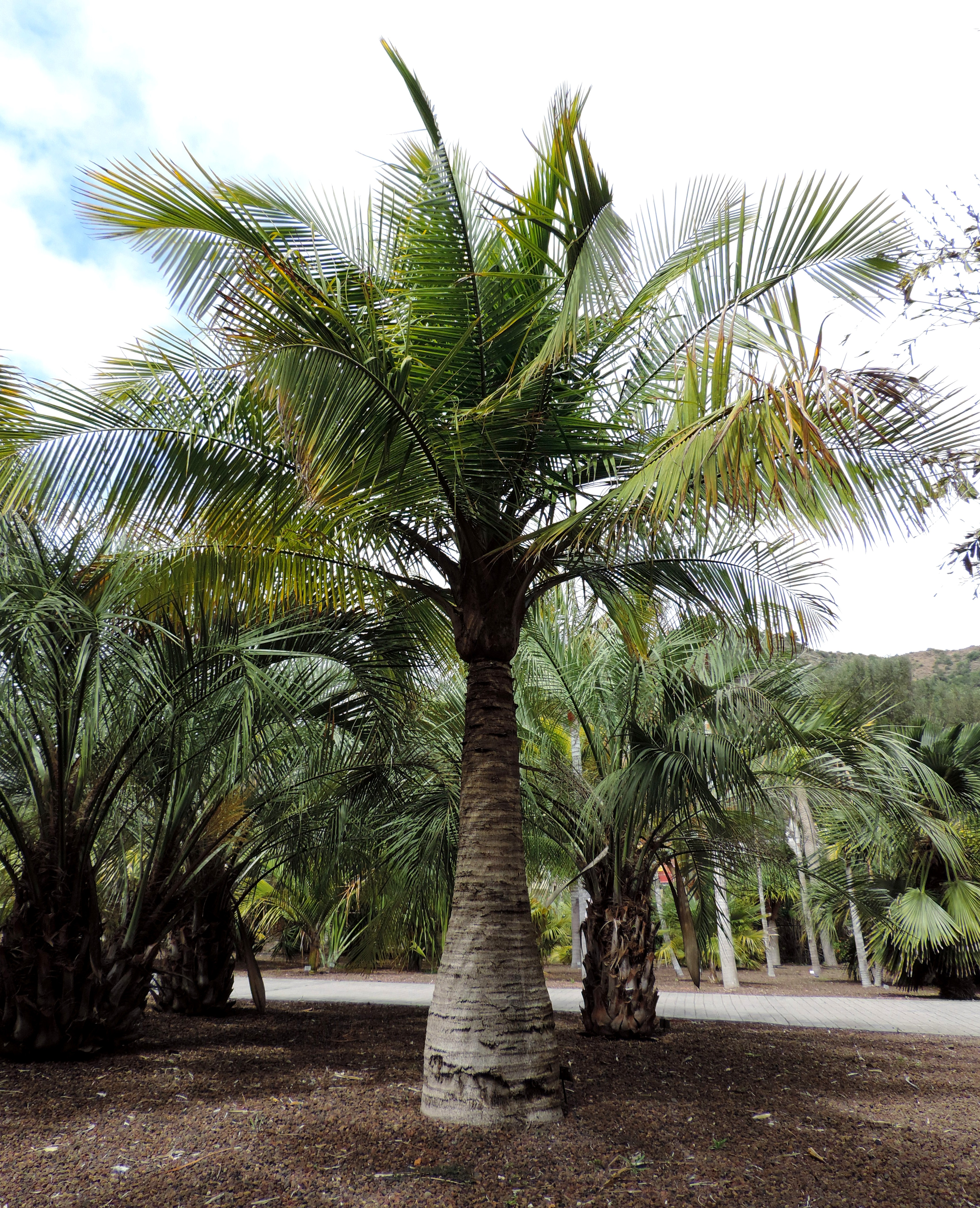 Ravenea madagascariensis in Jardín Botánico Canario Viera y Clavijo, Gran Canaria